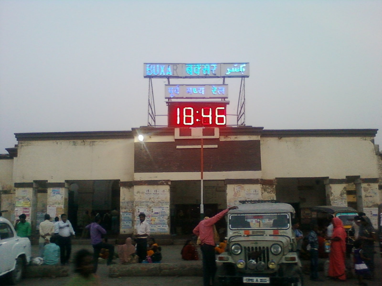 Buxar Railway Station Main Entrance